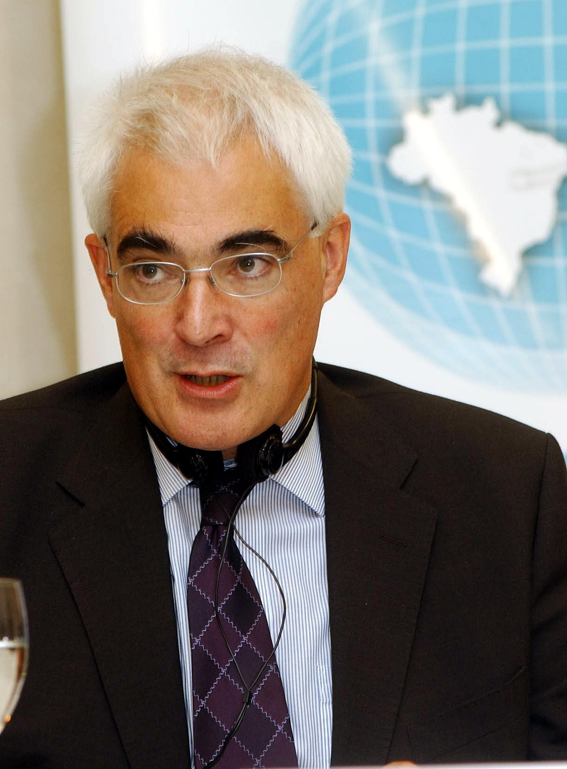 Alistair Darling, British politician and Chancellor of the Exchequer.